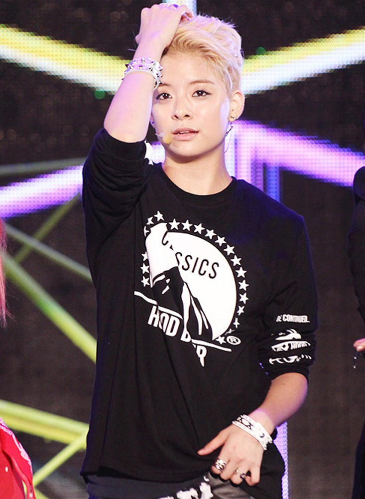 Amber Liu at M Super Concert, on August 3, 2013.